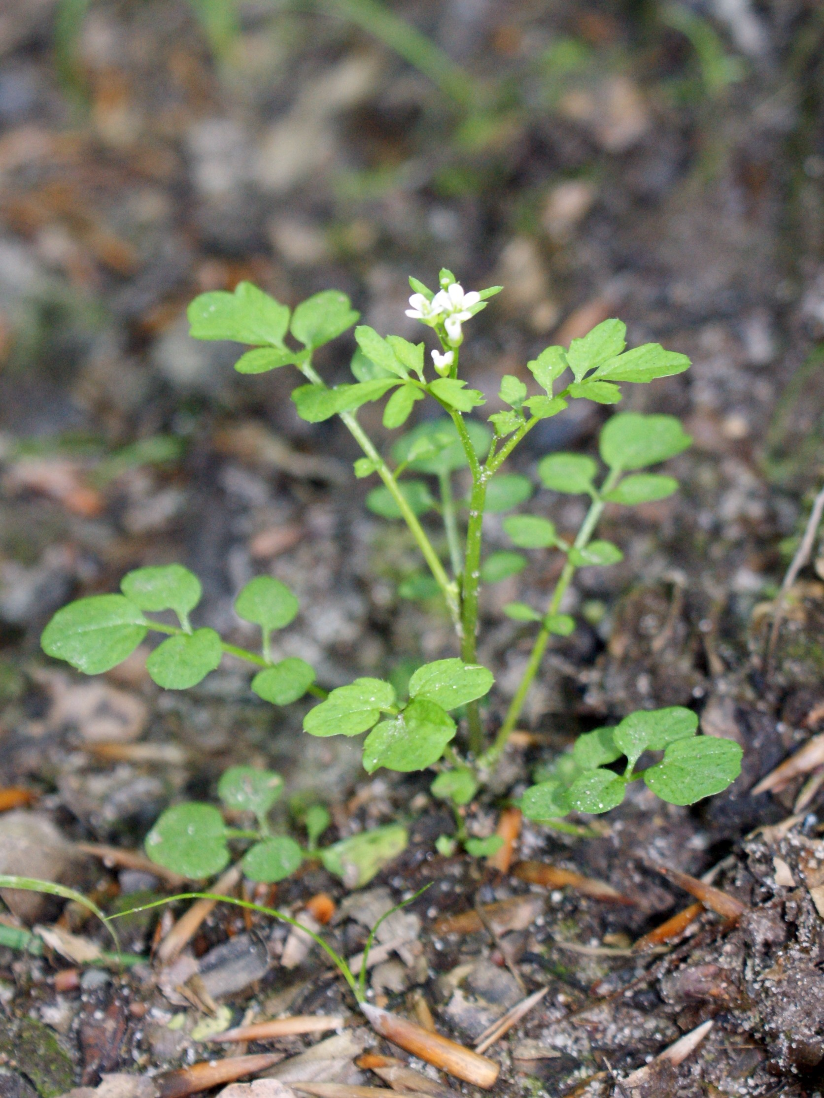 Cardamine flexuosa from Beech Forest near szczecin, NW Poland